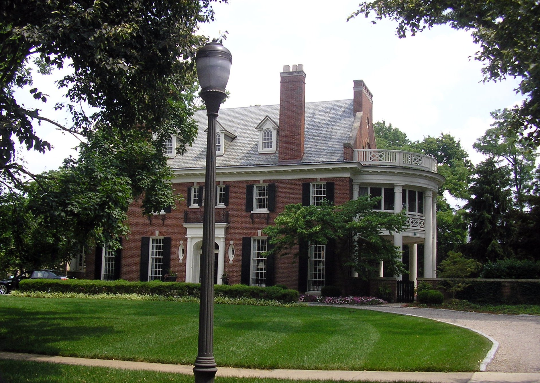 Front of the Humphrey-McMeekin House, located at 2240 Douglass Boulevard in Louisville, Kentucky, United States. Built in 1915, the house is listed on the National Register of Historic Places.